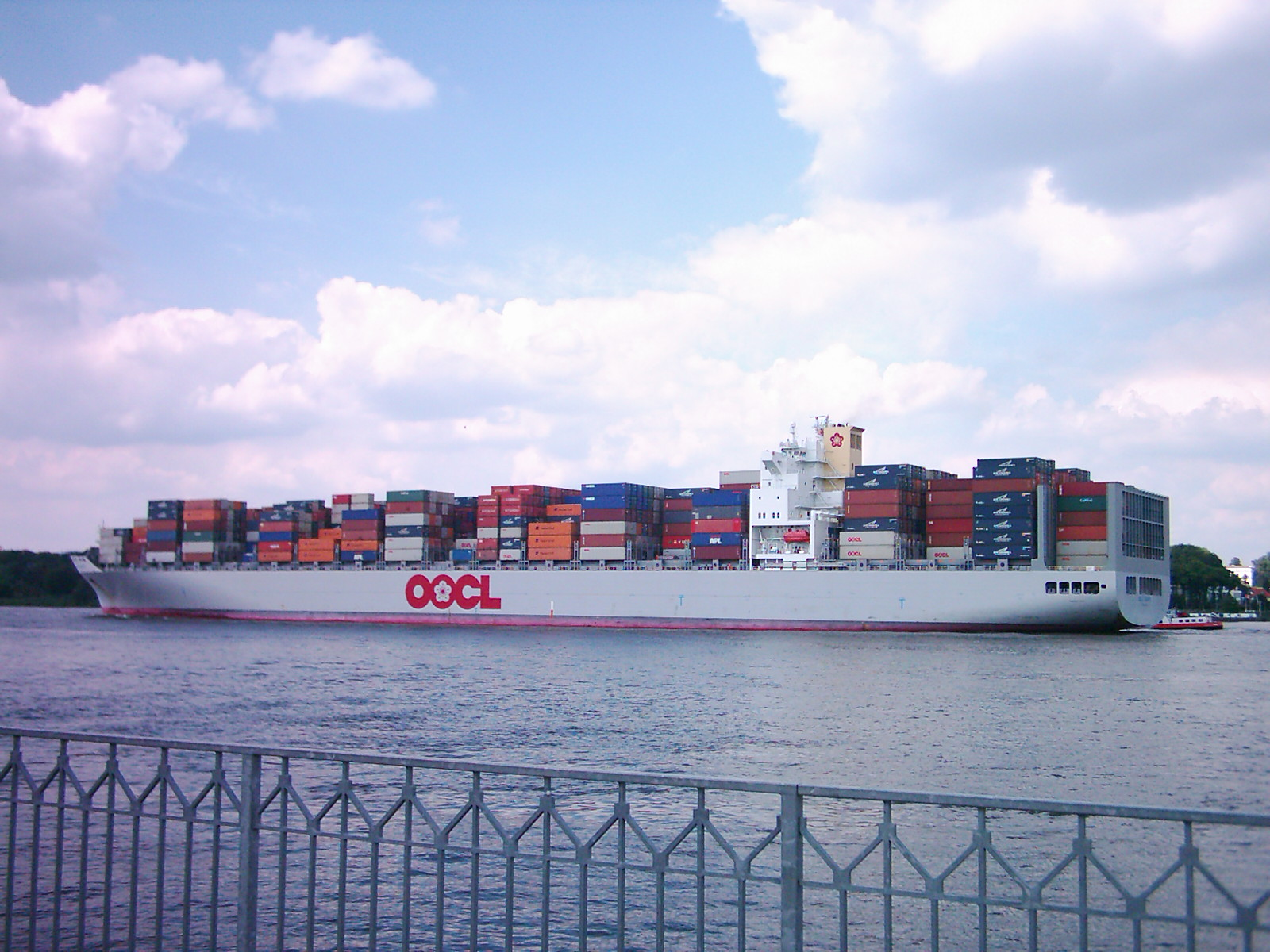 Orient Overseas Container Line (OOCL) container ship, Elbe, Hamburg, Germany.